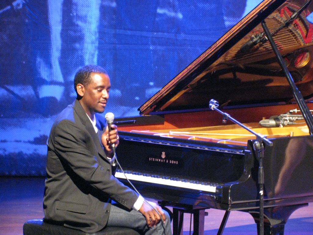 Danny Grissett turns to the audience and presents the works